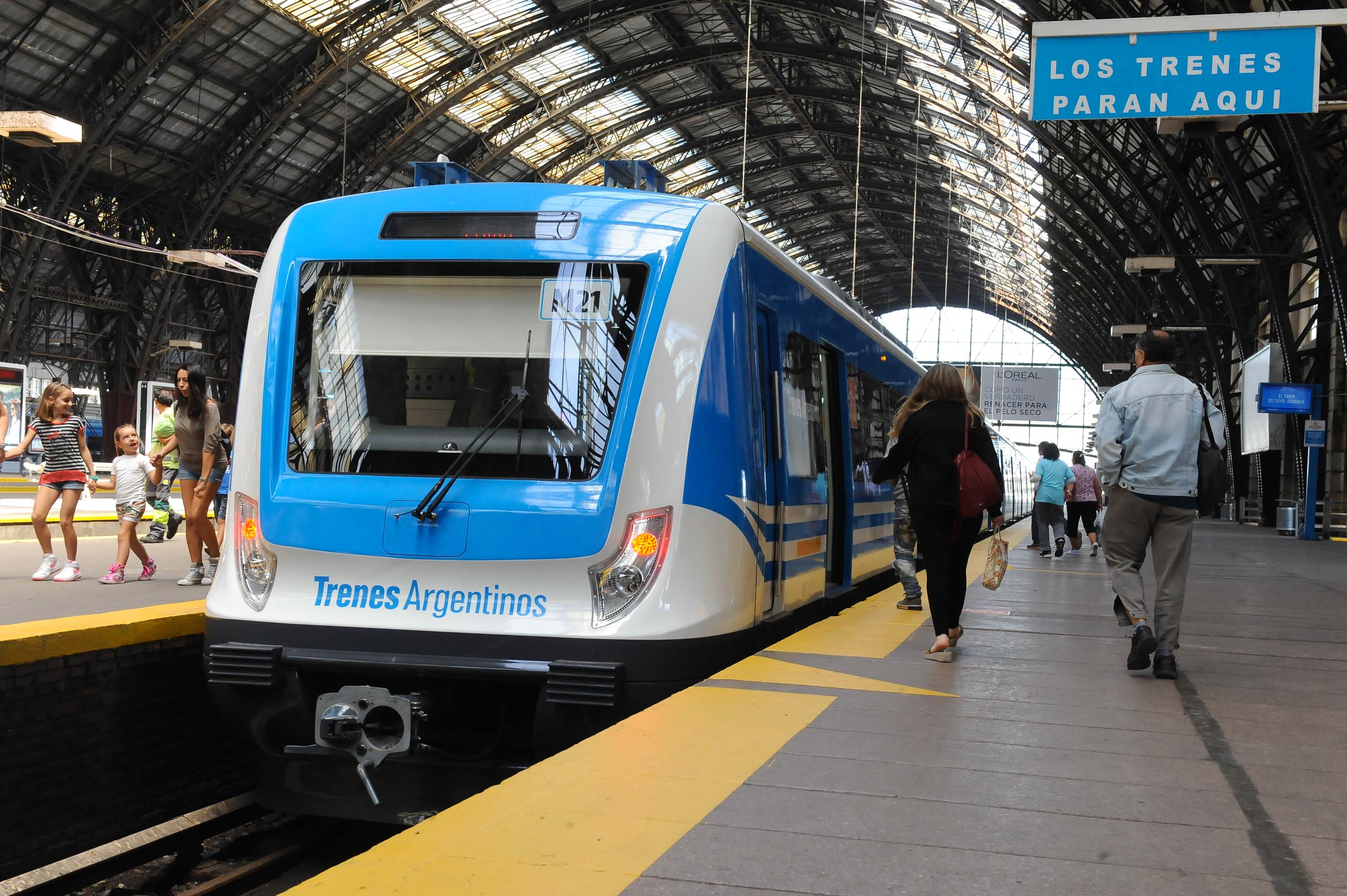 A brand-new electric multiple unit by CSR stopped at Retiro station of Mitre Line, in Buenos Aires.